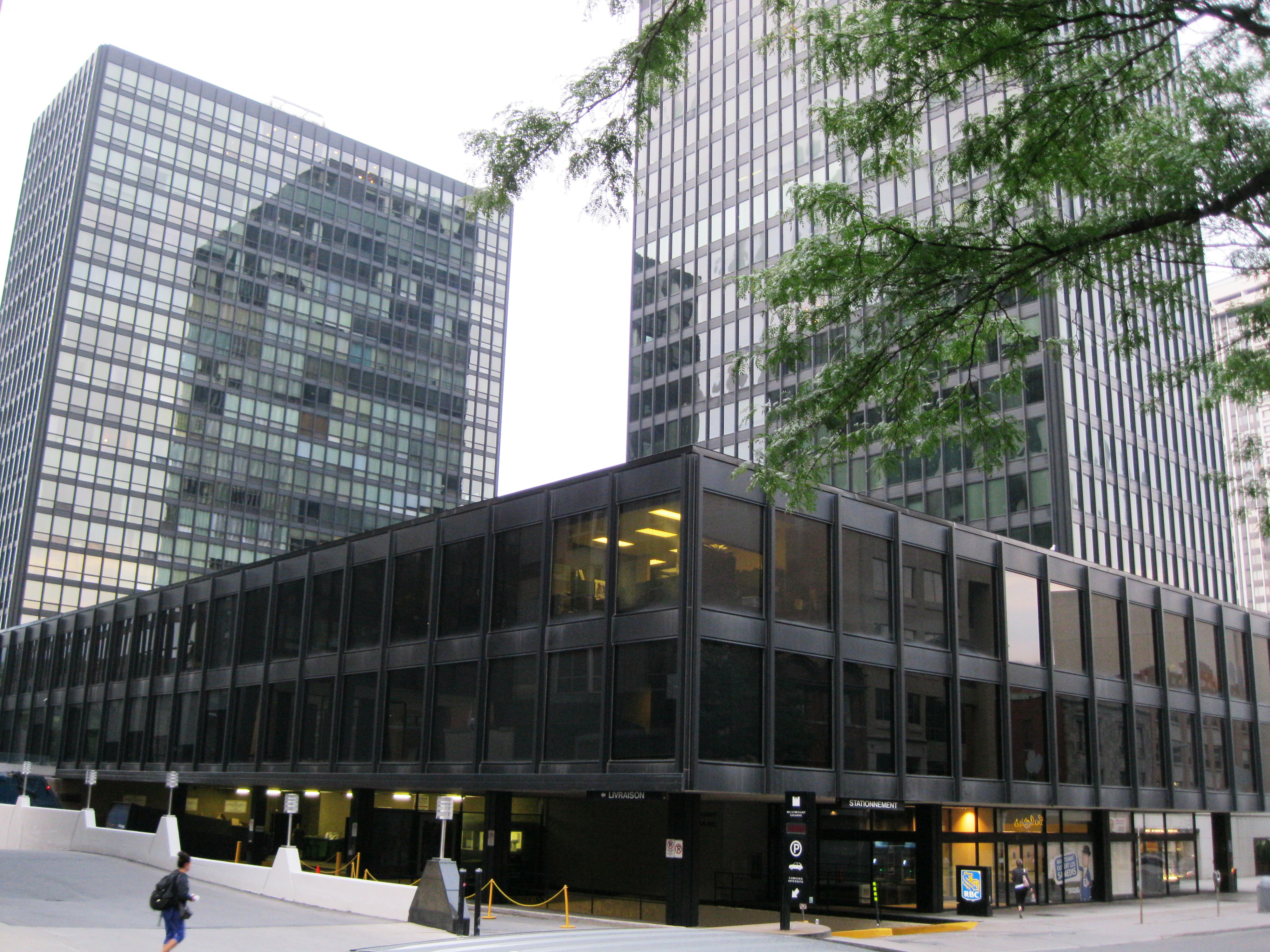 This photo shows Westmount Square a complex designed by architect Ludwig Mies van der Rohe